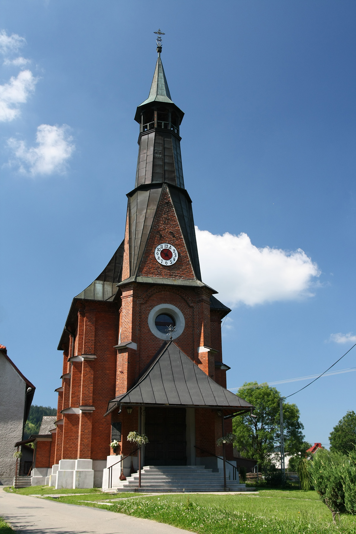 Chapel in Sidzina Górna